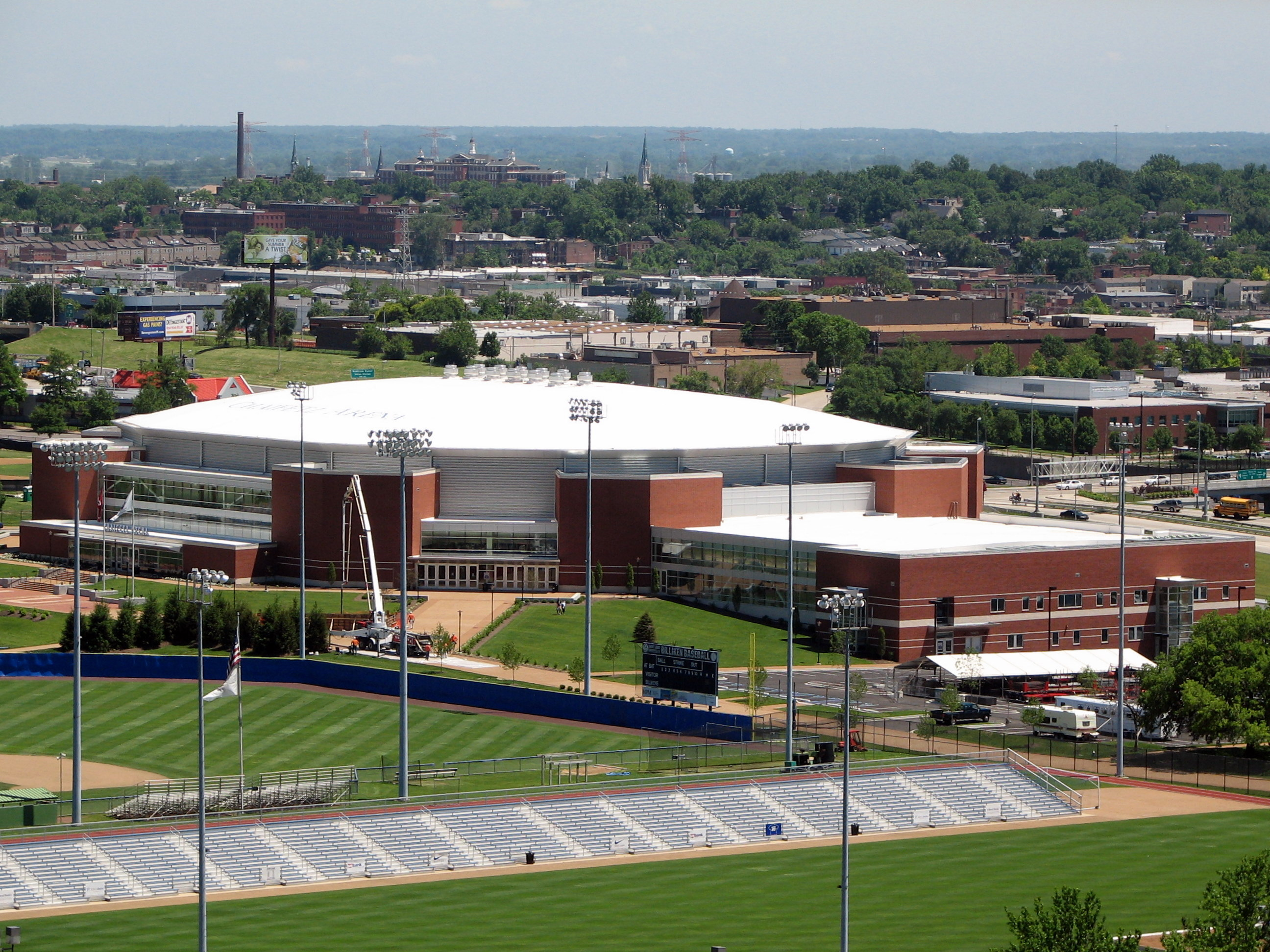 Chaifetz arena, Saint Louis University campus, June 10, 2008